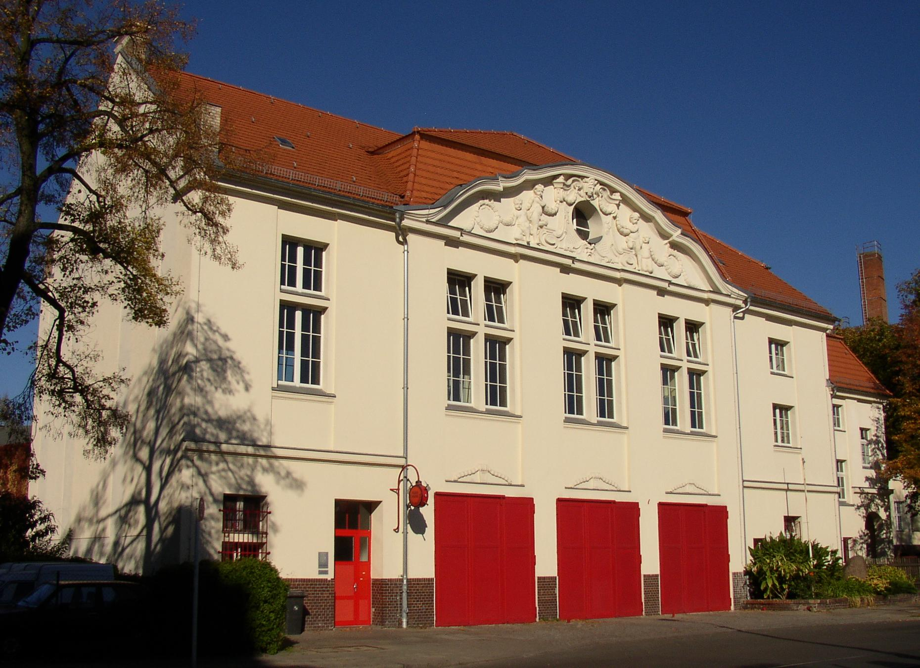 Fire station in Berlin-Niederschönhausen, Germany